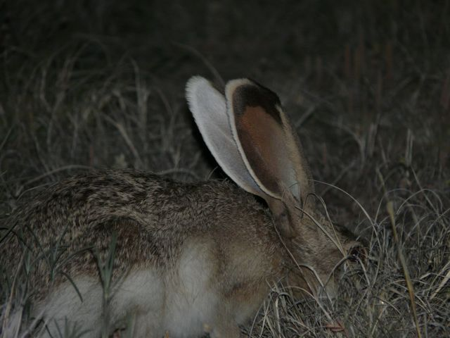 White sided jackrabbit (Lepus callotis) in New Mexico feeding on blue grama and buffalograss.